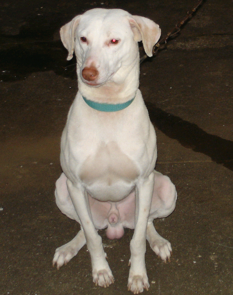 Rajapalaym Hound.